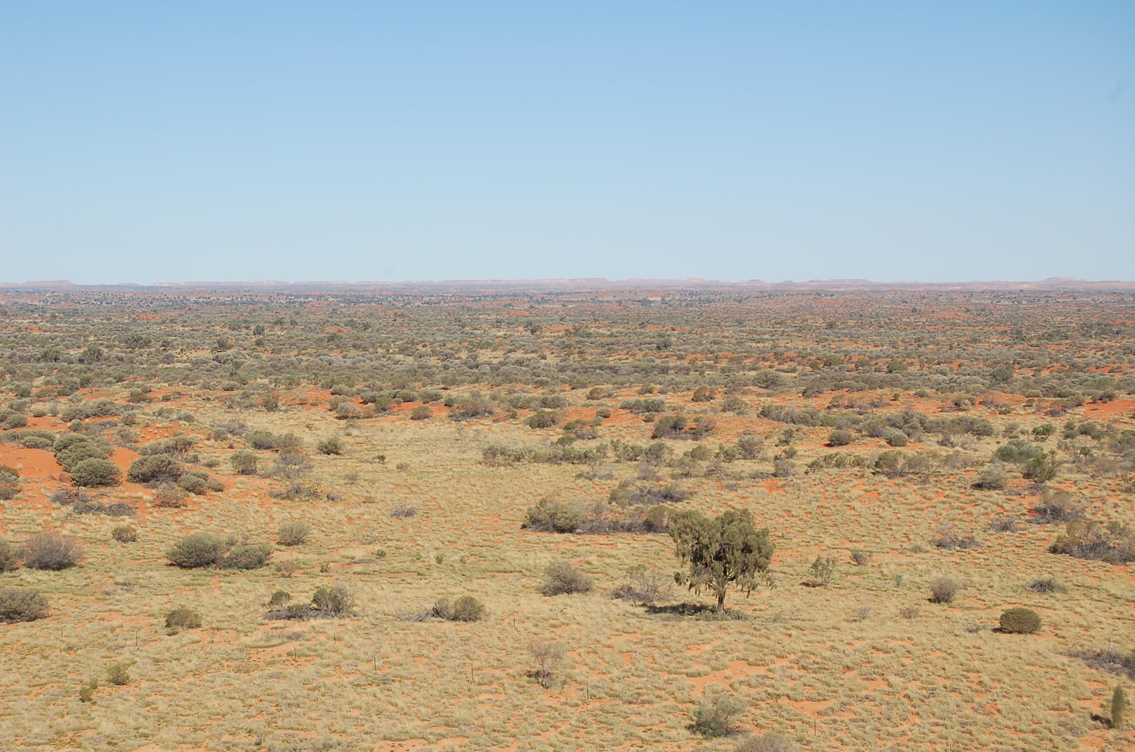 The edge of Simpson's desert, as seen from Chamber's Pillar (2007).